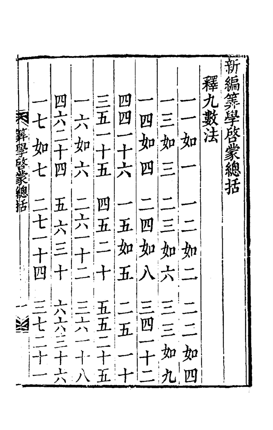 suanxue qimeng